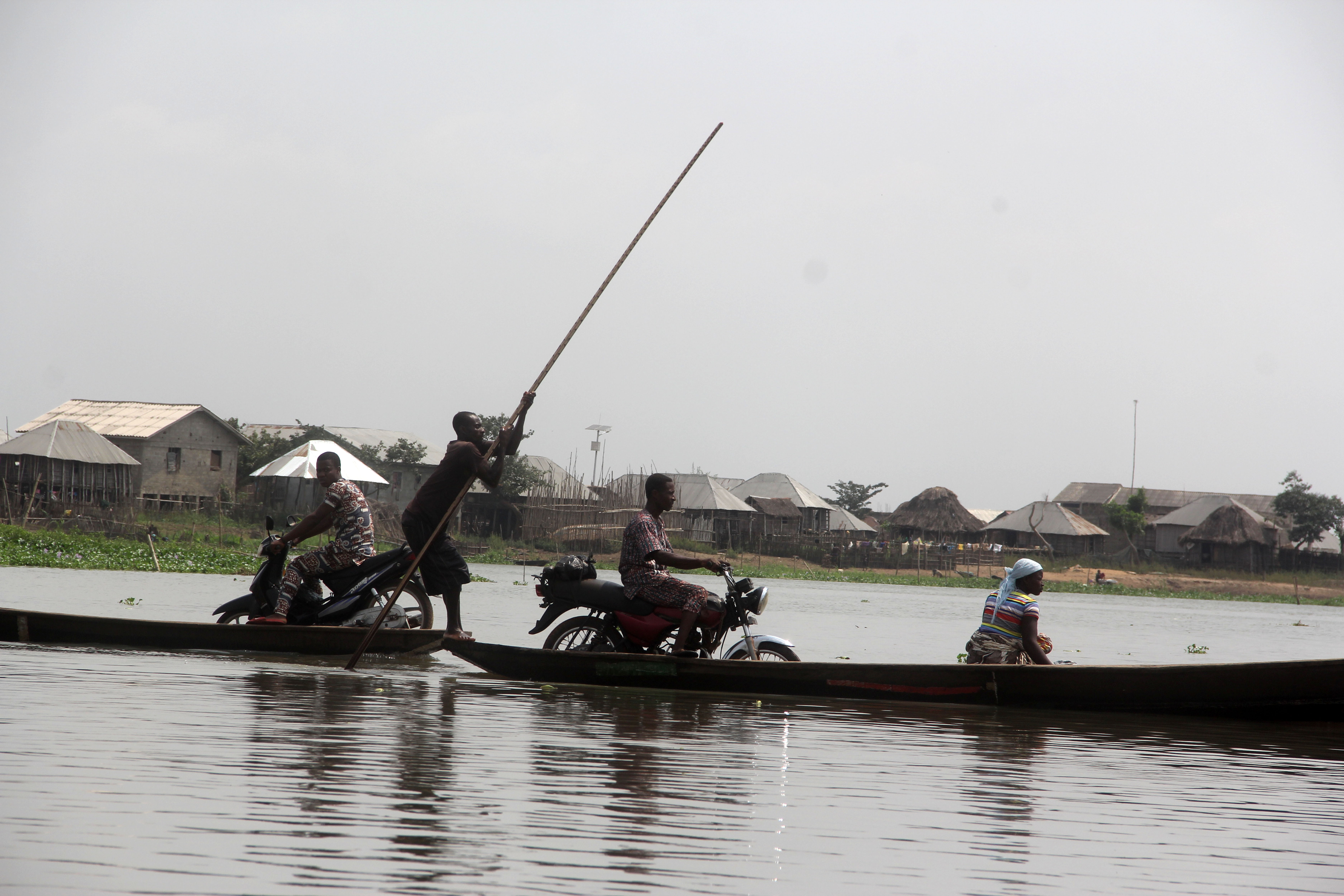 transport of motorbikes in dugout allowing passengers to reach the other shore This is an image with the theme "Africa on the Move or Transport" from: Benin